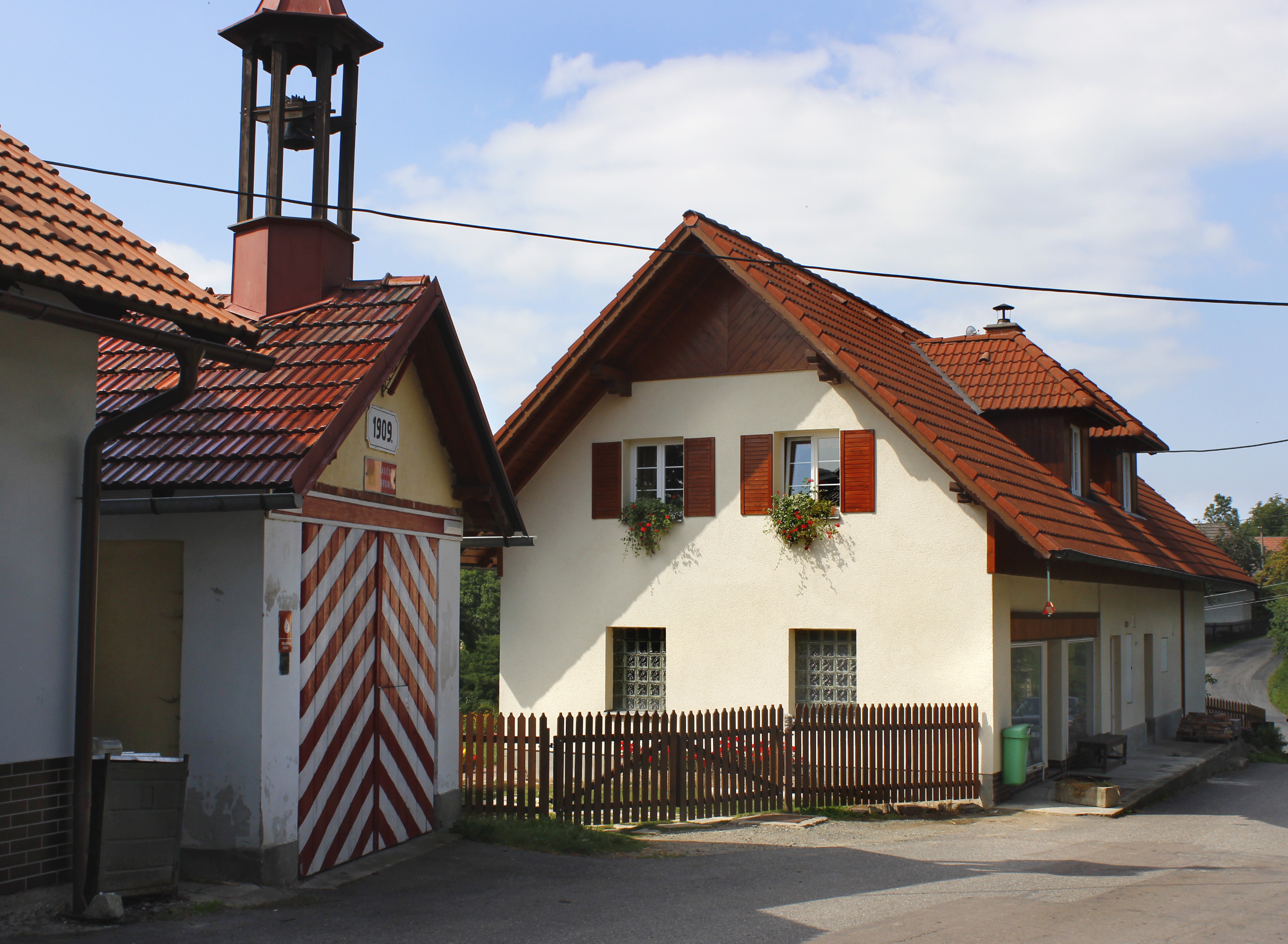 Fire station in Svinná, part of Skuhrov nad Bělou village, Czech Republic